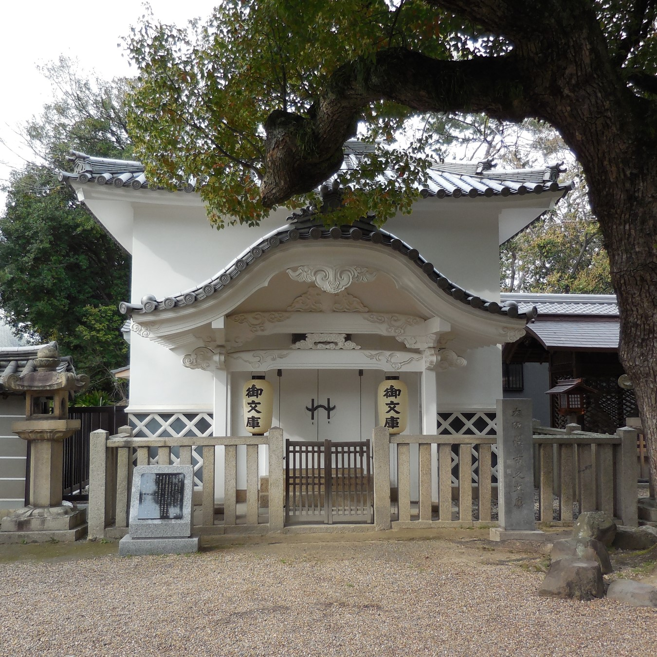 Sumiyoshi Taisha Bunko